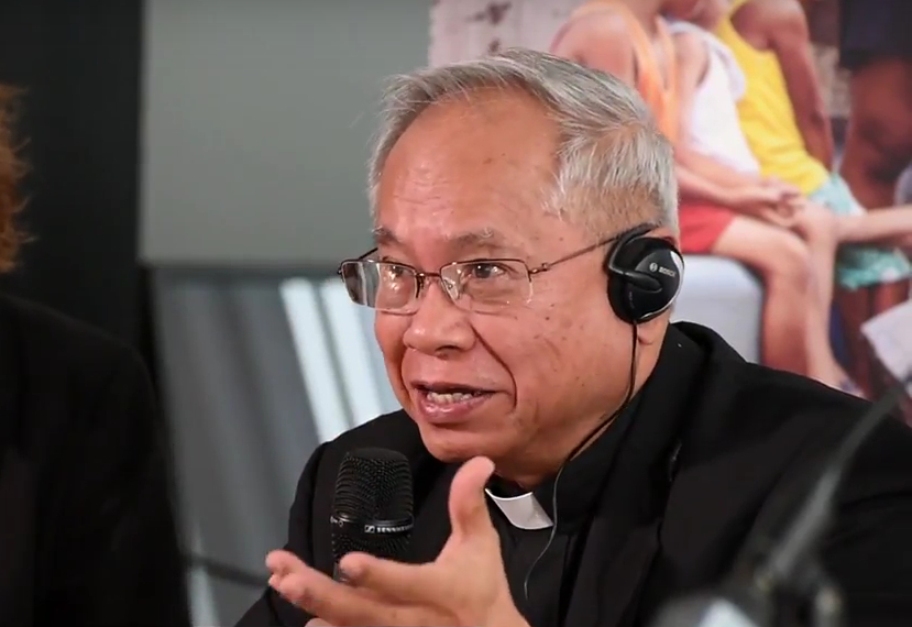 Orlando Beltran Quevedo, Archbishop of Cotabato. Cropped video still from Pressekonferenz zur Eröffnung des Monats der Weltmission - Philippinen | missio Aachen.